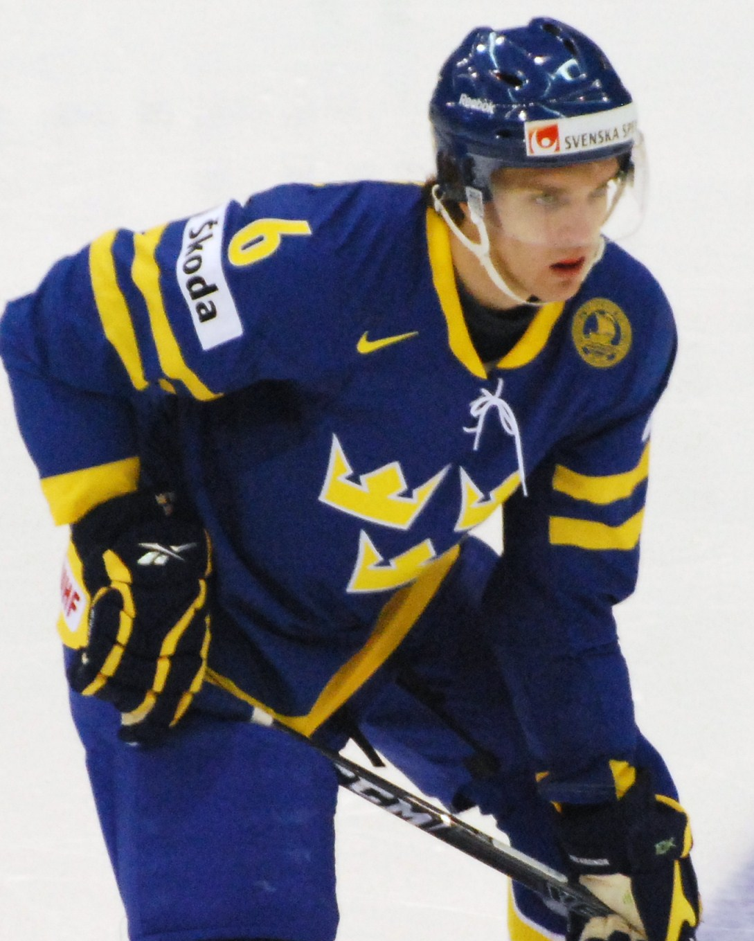 Peter Andersson during a game against Austria during the 2010 World Junior Championships.